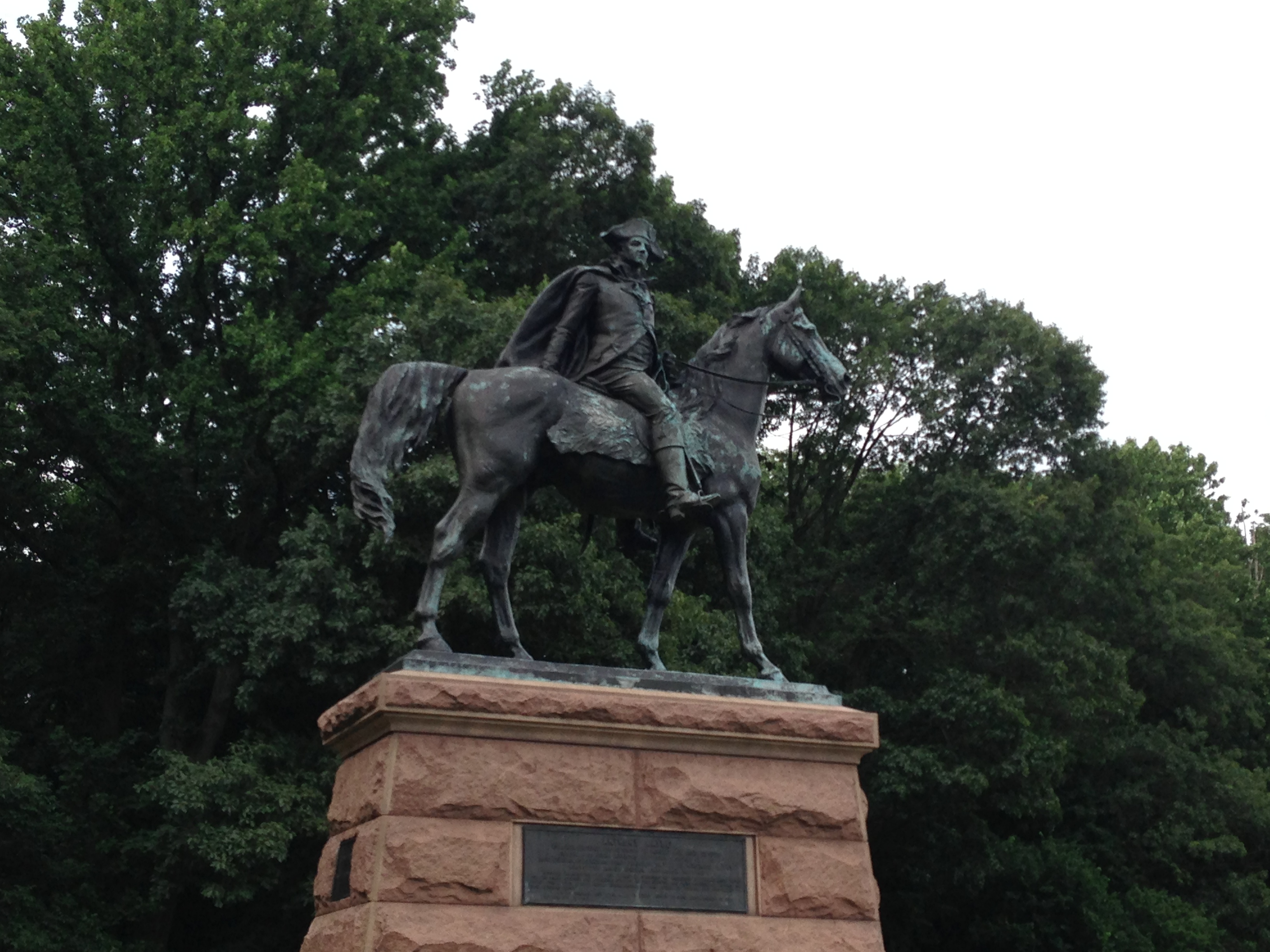 Anthony Wayne statue at valley forge national historical park Pennsylvania